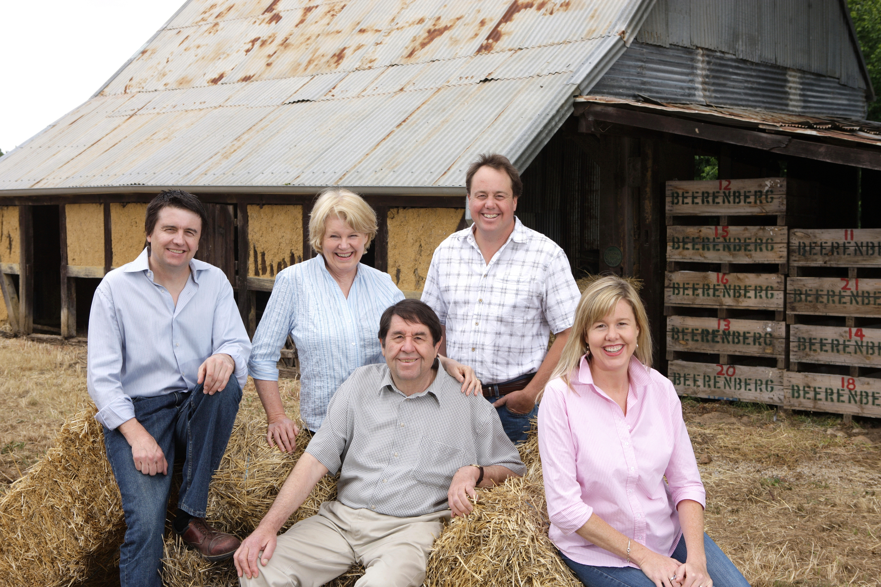 Paech Family, Beerenberg Farm, Australia